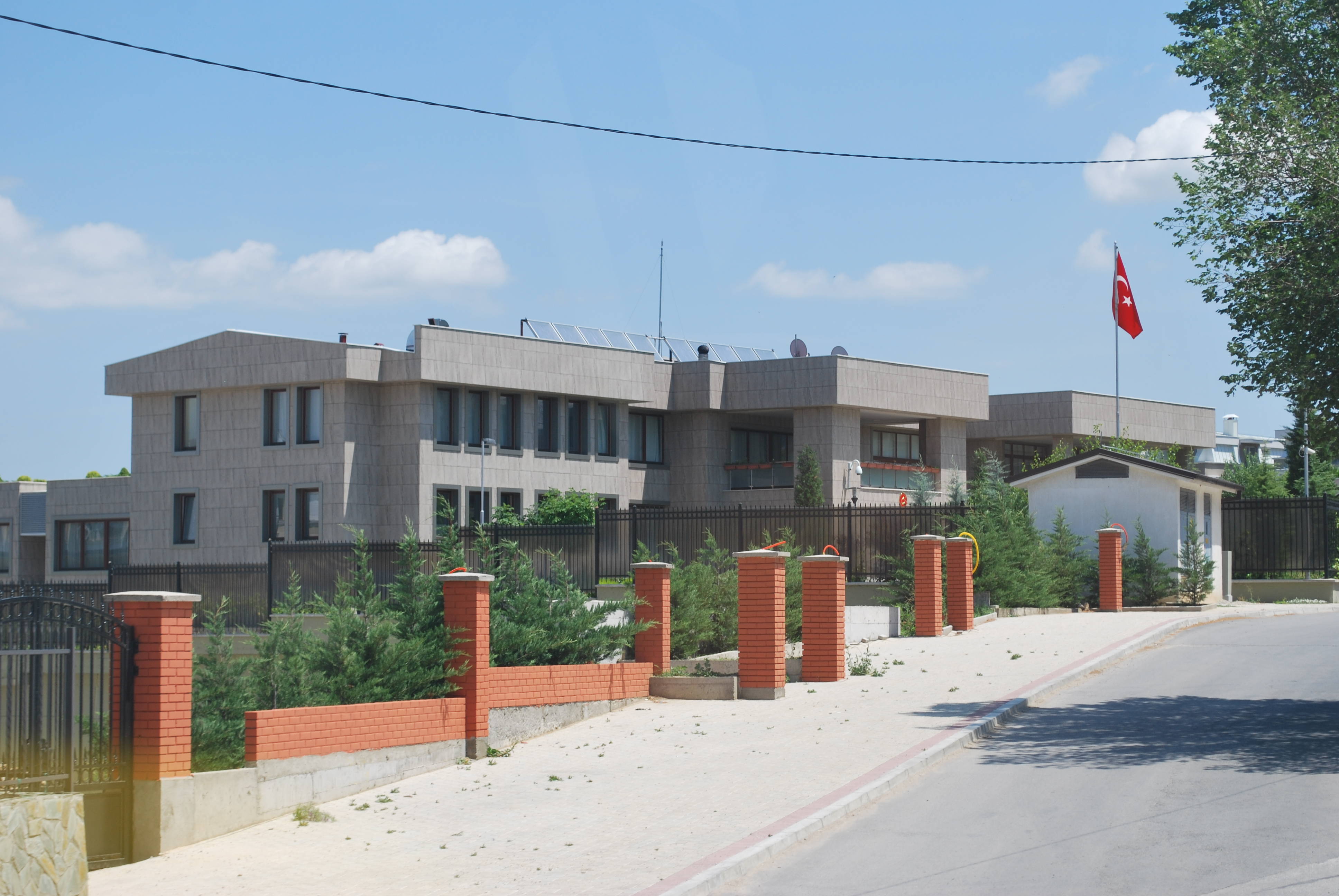 Skopje, Macedonia